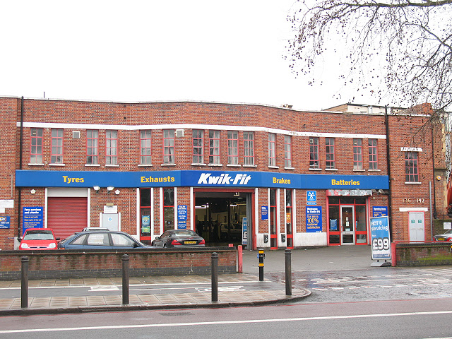 Kwik-Fit, New Kent Road A motor repair franchise.